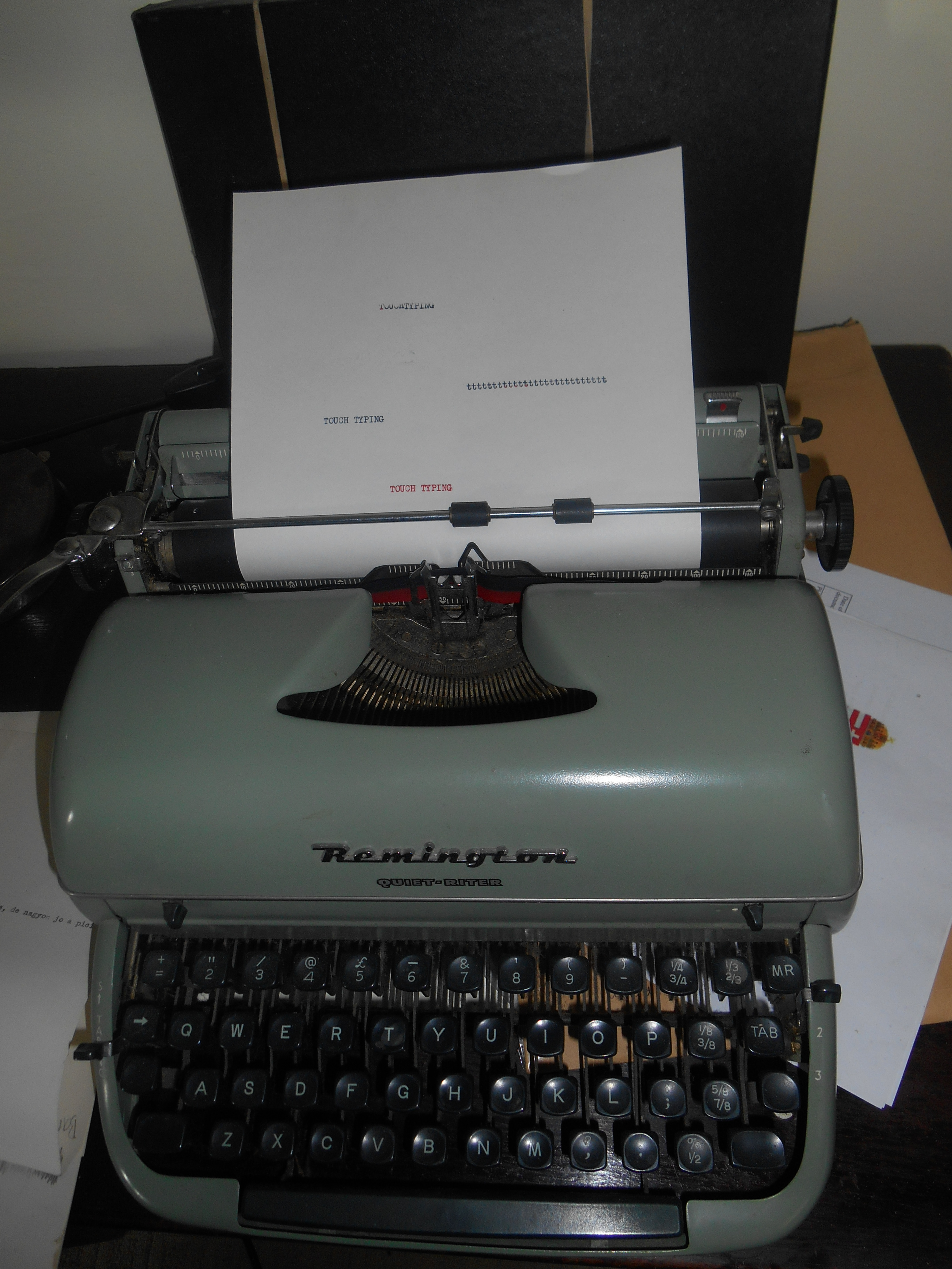 The author touch typing and making mistakes on a 1950's Remington typewriter. Ideally my fingers would be in the photo but I couldn't then hold the camera!